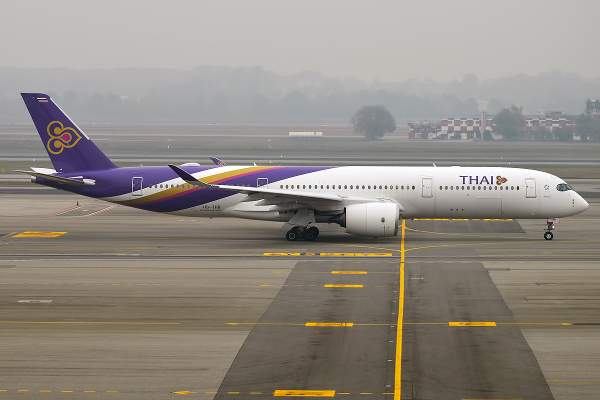 Thai Airways, HS-THB, Airbus A350-941